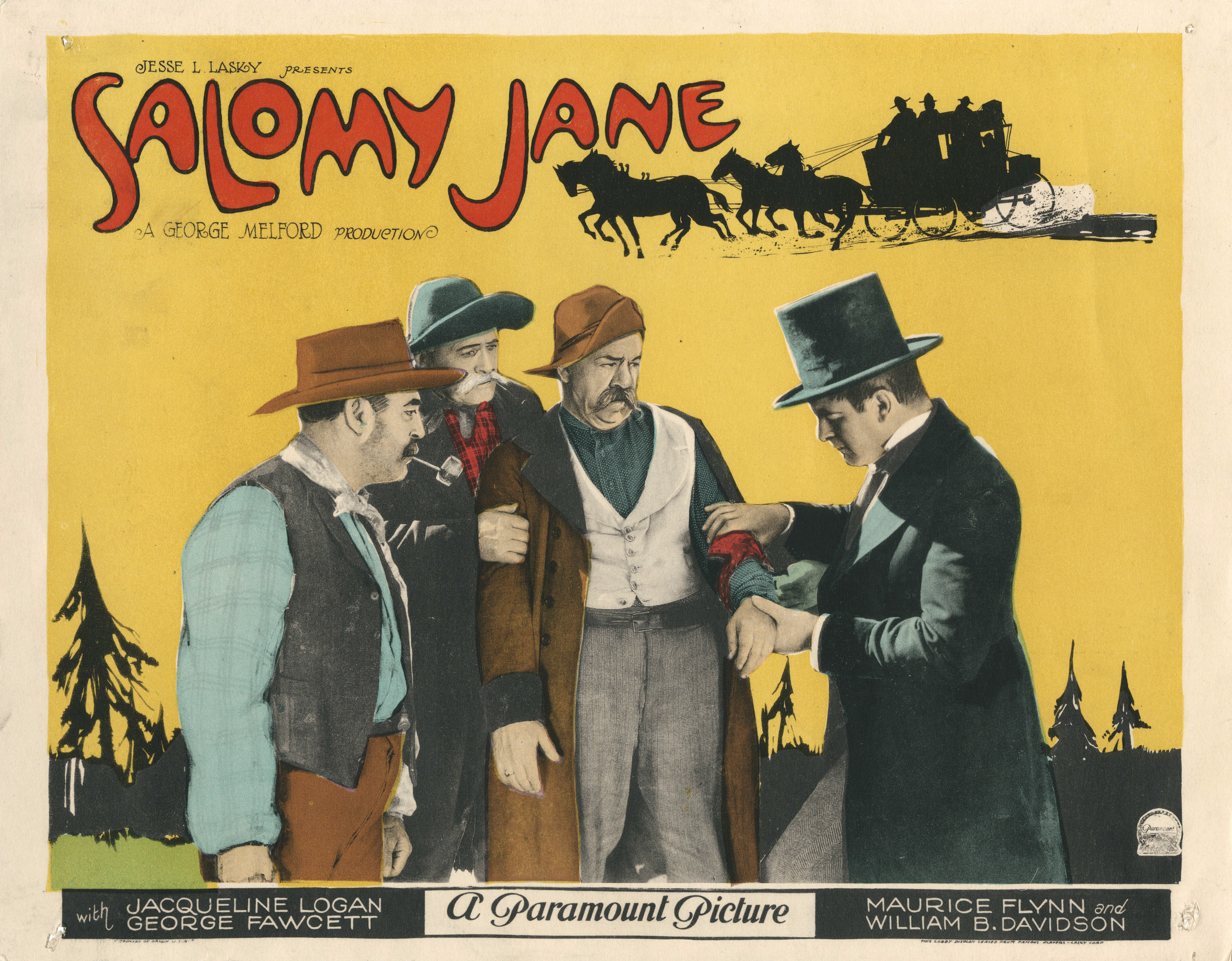 Salomy Jane (1923), lobby card for the silent film, produced by Jesse Lasky and starring Jacqueline Logan, George Fawcett, Maurice Flynn and William B. Davidson. Courtesy of the Beinecke Rare Book & Manuscript Library, Yale University.